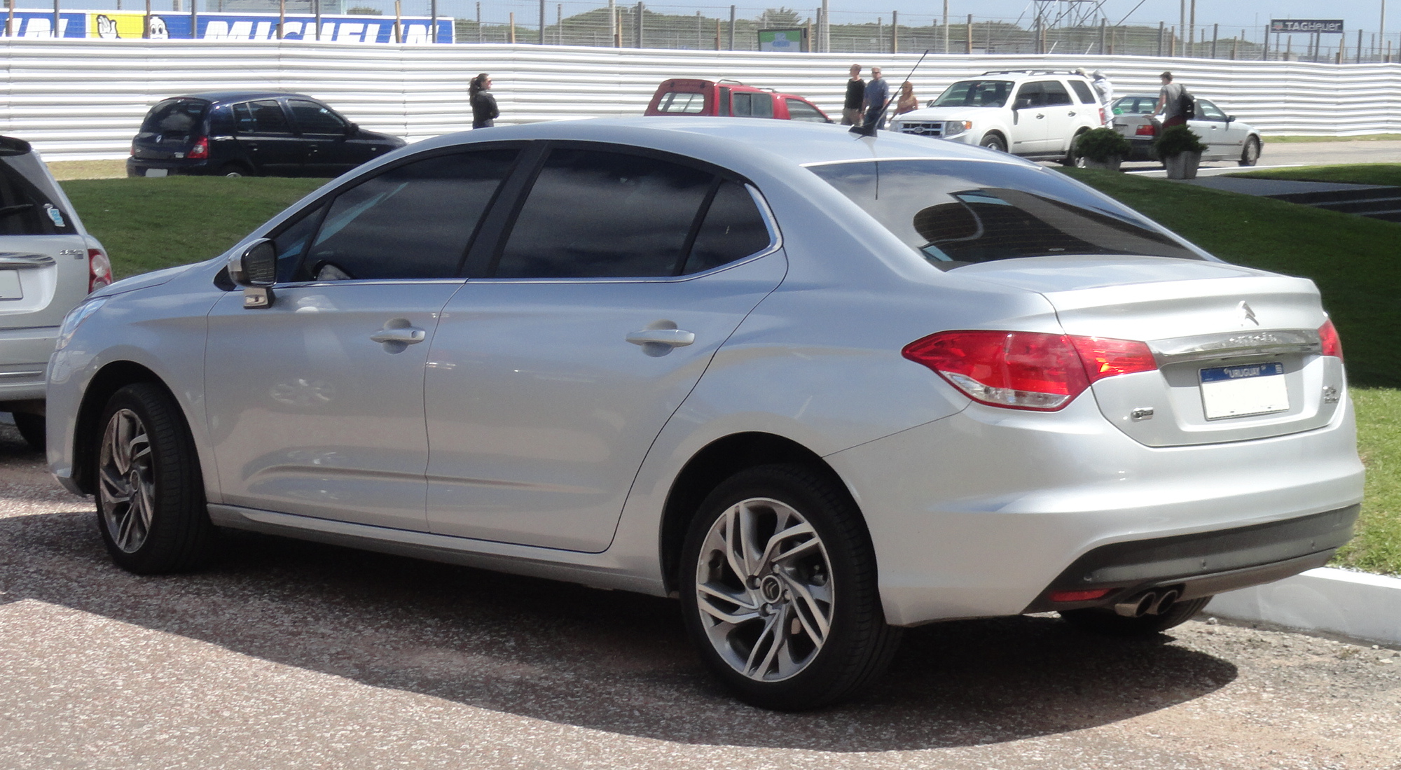 Citroën C4 Lounge photographed in Punta del Este (Uruguay)